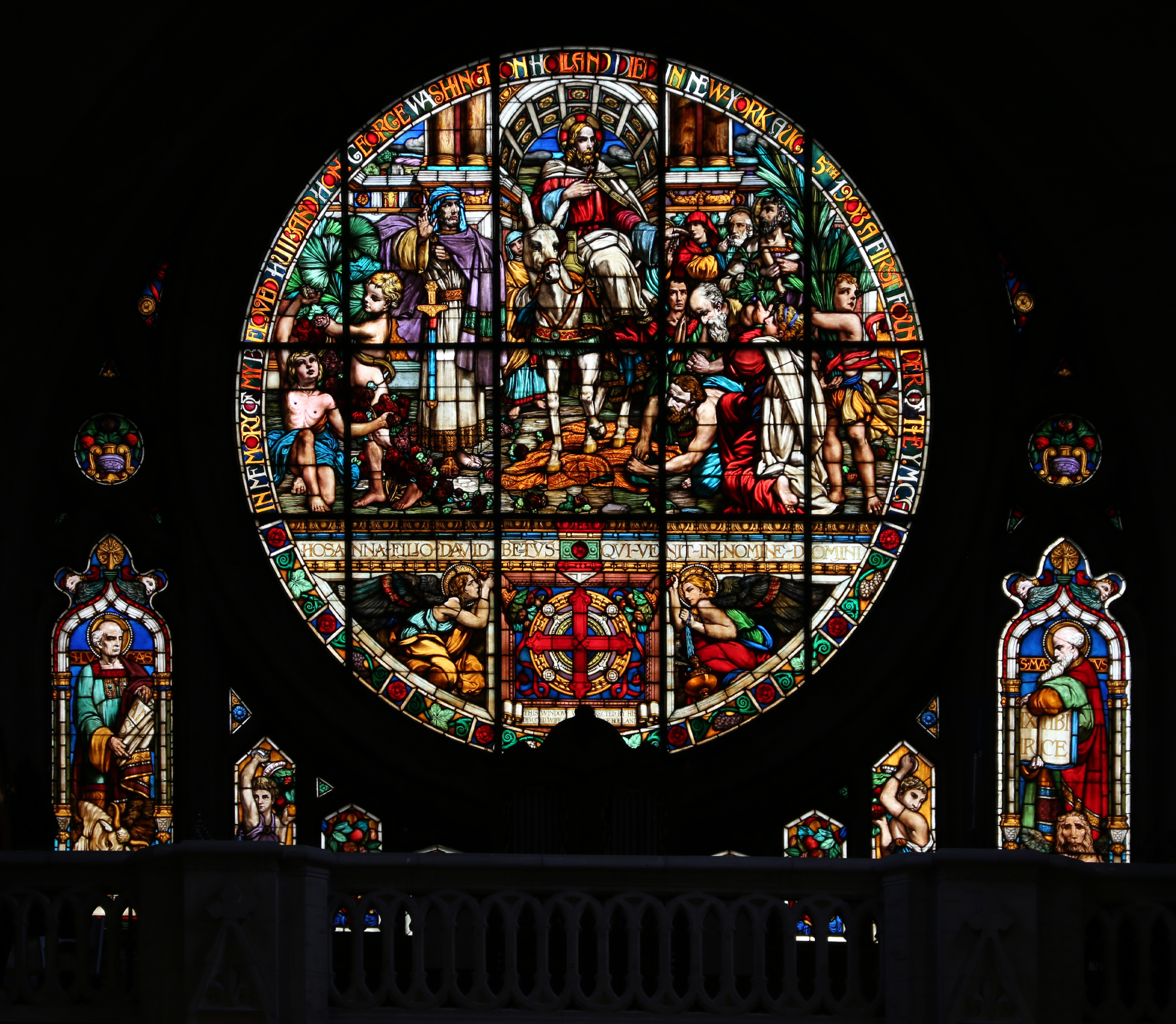 Stained-glass windows in Saint James (Florence)